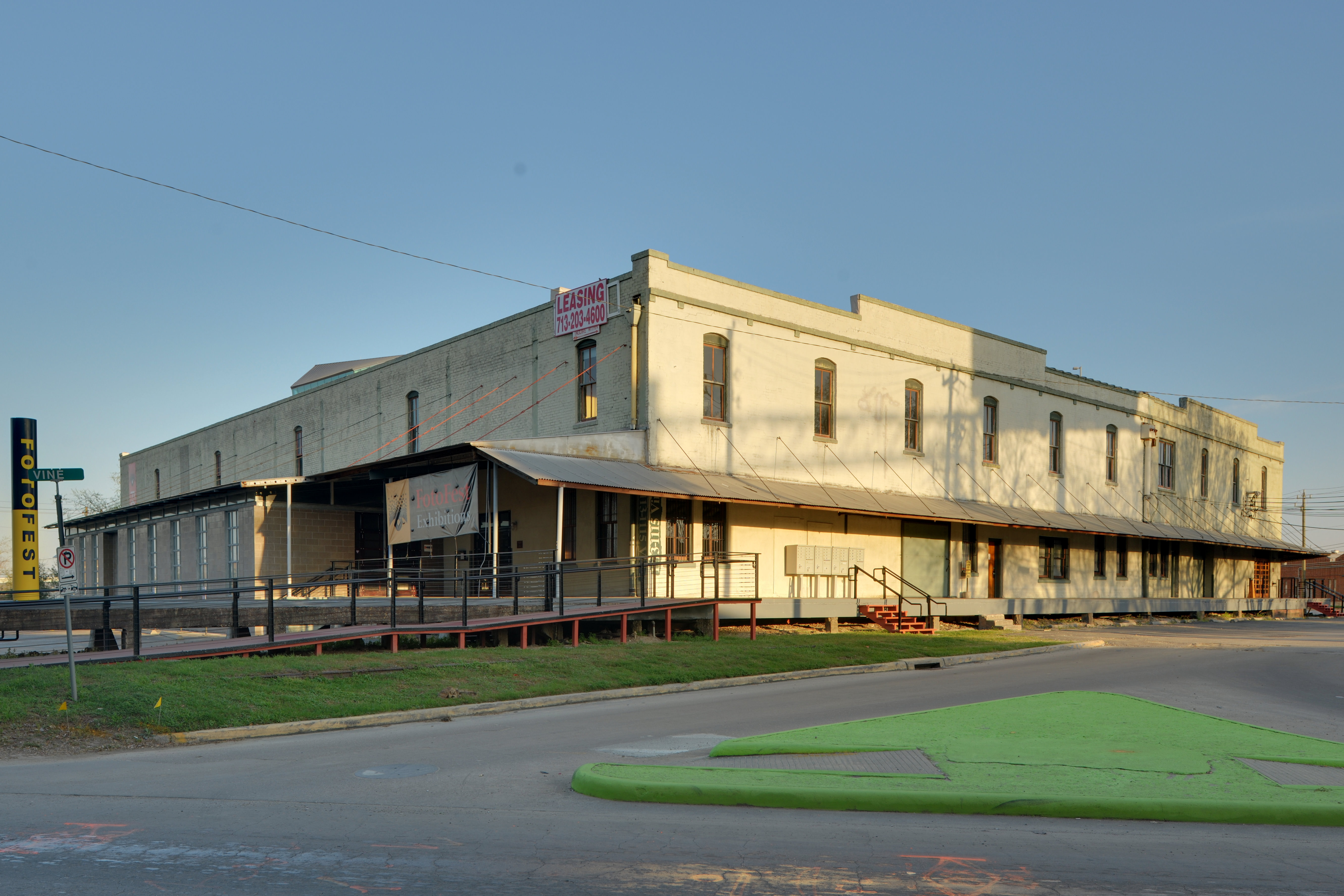 The Union Transfer and Storage Building, 1113 Vine St., Houston (Texas, USA) is listed in the National Register of Historic Places, United States Department of the Interior.